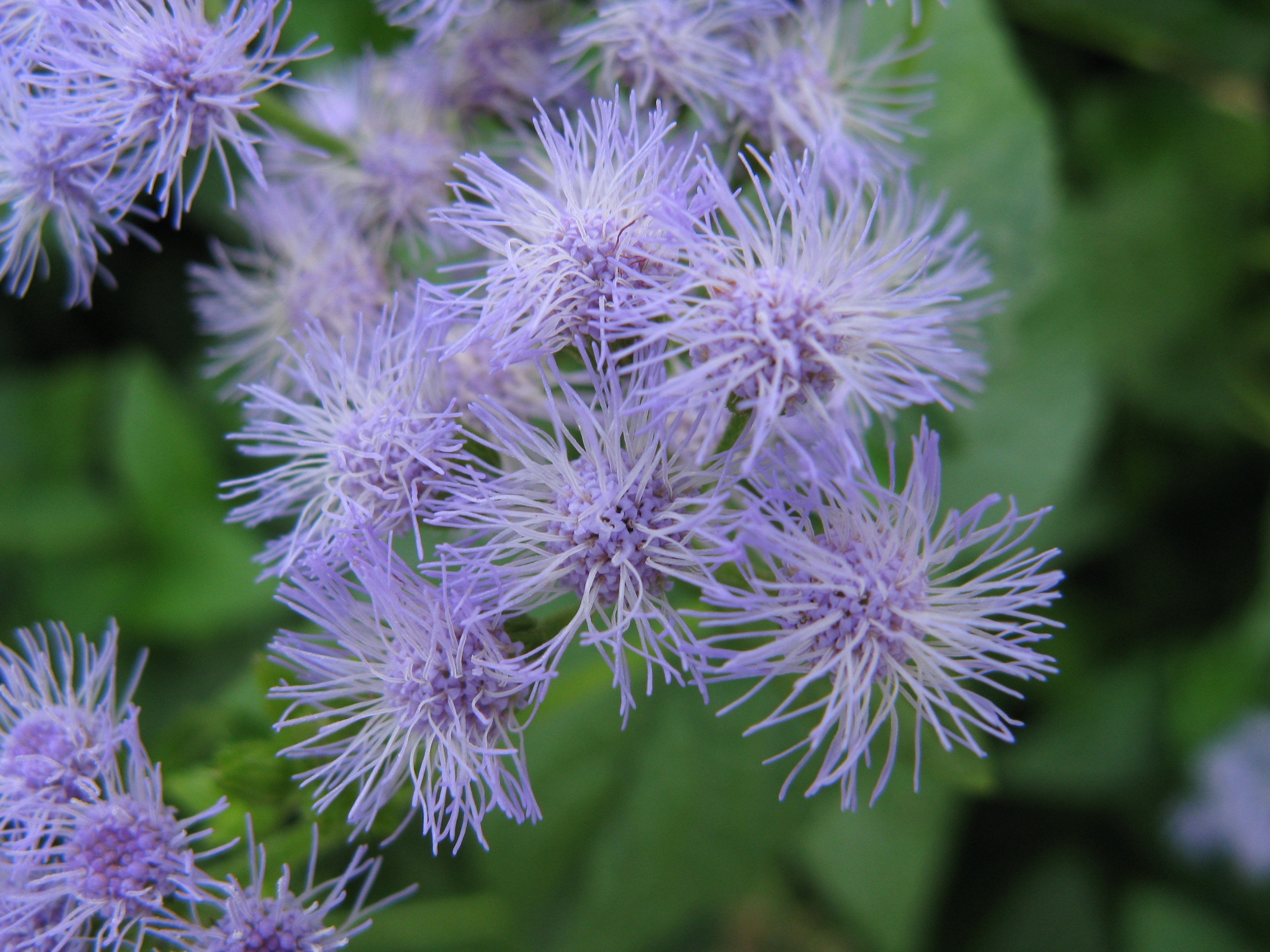 Eupatorium coelestinum Place:Osaka Prefectural Flower Garden,Osaka,Japan